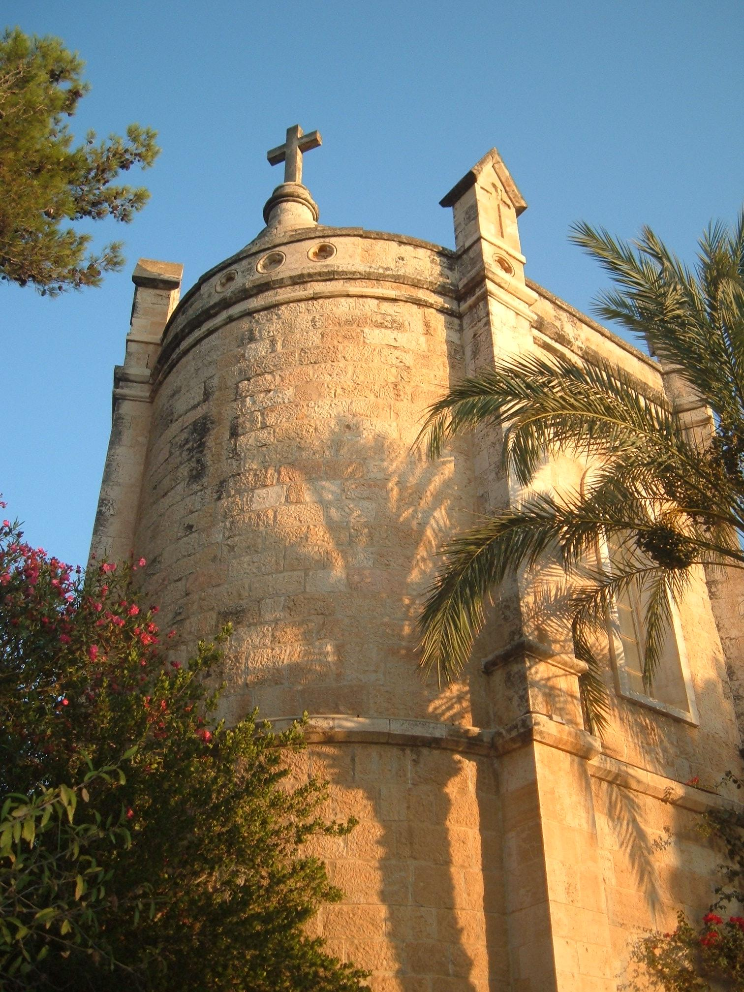 main bulding in the sisters of zion monatery at sunrise (EXIF timestamp is wrong), Ein Karem, Jerusalem.